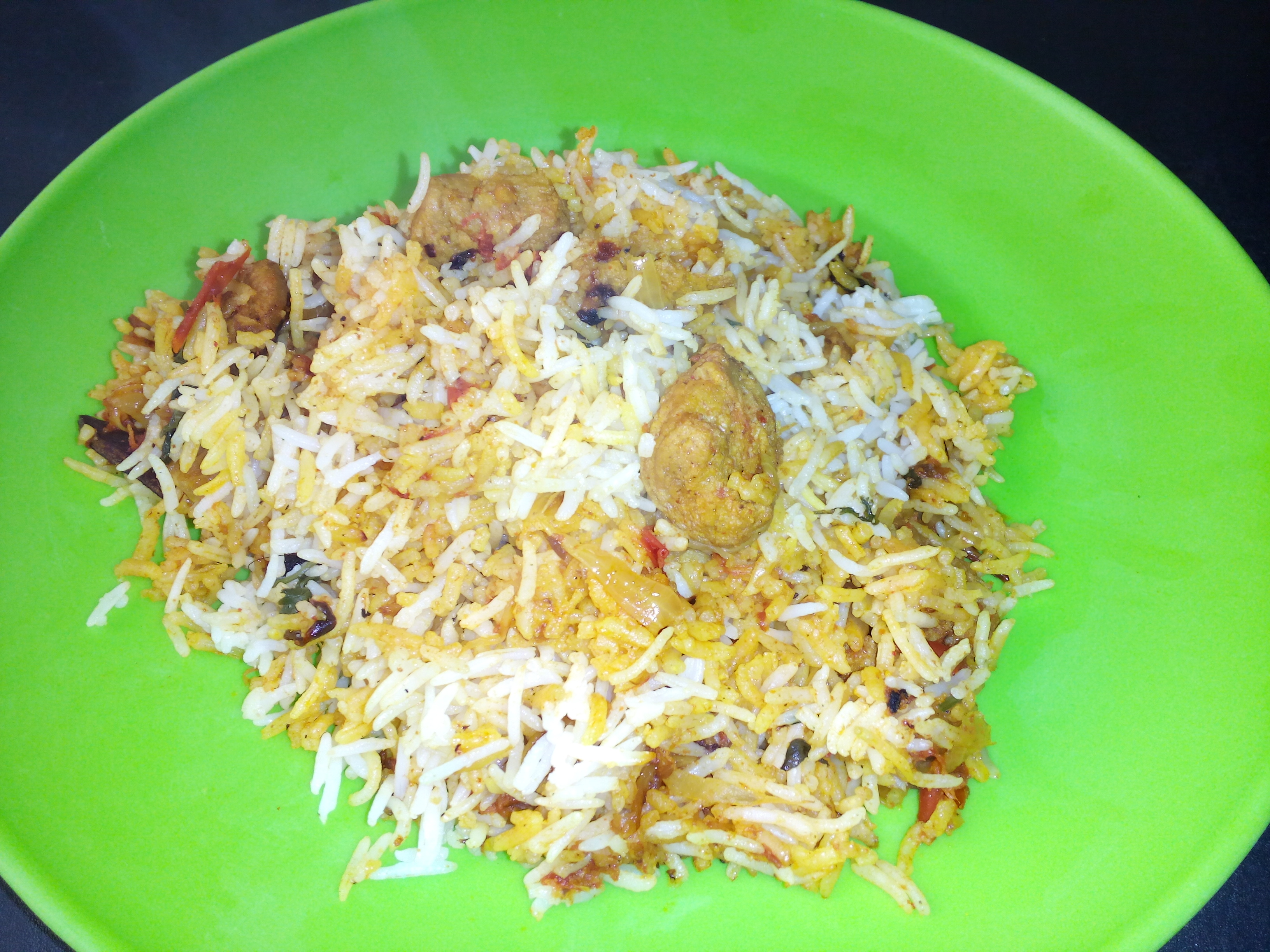 Soya pulao from India